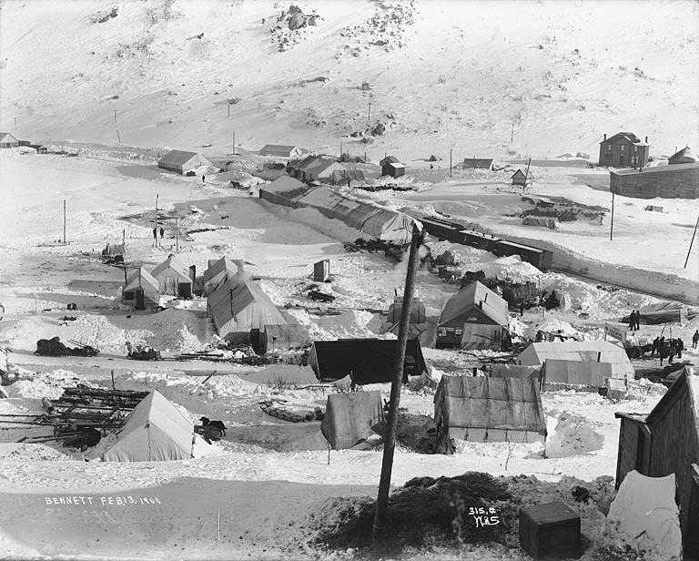 Caption on image: "Bennett Feb 13, 1900" Original image in Hegg Album 21, page 35 . Original photograph by Eric A. Hegg 732; copied by Webster and Stevens 315.A. Subjects (LCTGM): Railroads--British Columbia--Bennett; Cities & towns--British Columbia Subjects (LCSH): White Pass & Yukon Route (Firm); Bennett (B.C.)